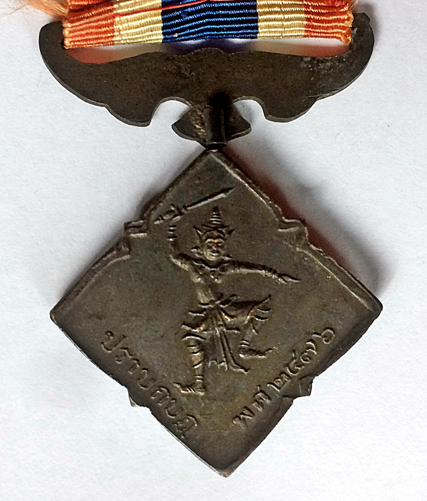 เหรียญพิทักษ์รัฐธรรมนูญ (The Safeguarding the Constitution Medal) in Wat Kungtapao Local Museum. at Wat Khung Taphao, Ban Khung Taphao, Khung Taphao subdistrict, Mueang Uttaradit, Uttaradit Province, Thailand.